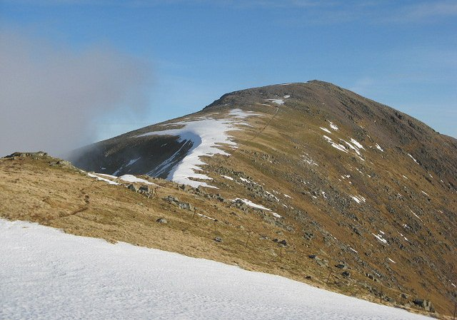 Stob Ghabhar The west ridge. Looking up to the summit from Sròn a' Ghearrain.